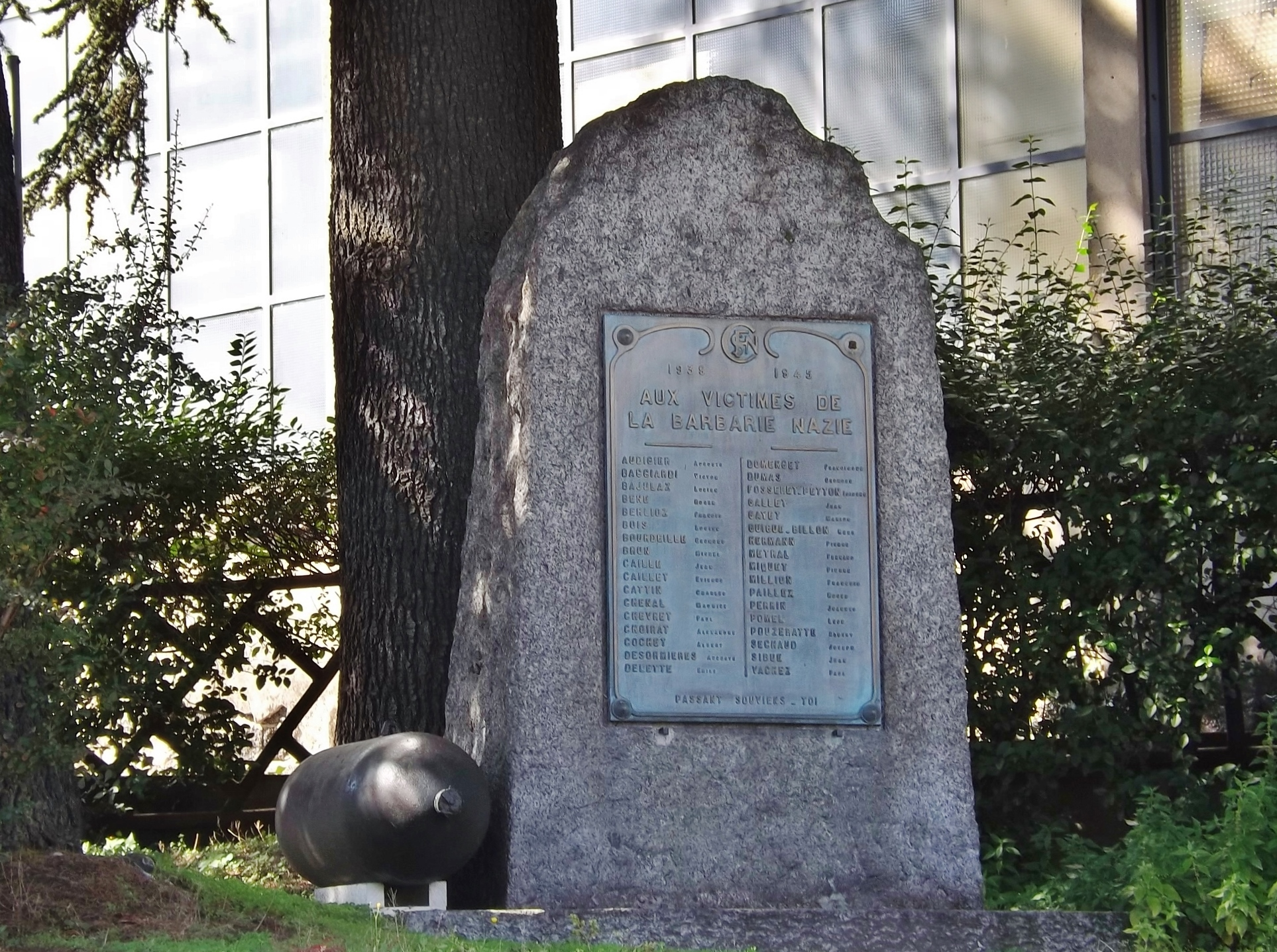 An unexploded bomb and the memorial dedicated to the rail workers who died during the American May 26th 1944 bombing on the city of Chambéry railway rotunda and "depot" center, in Savoie, France.